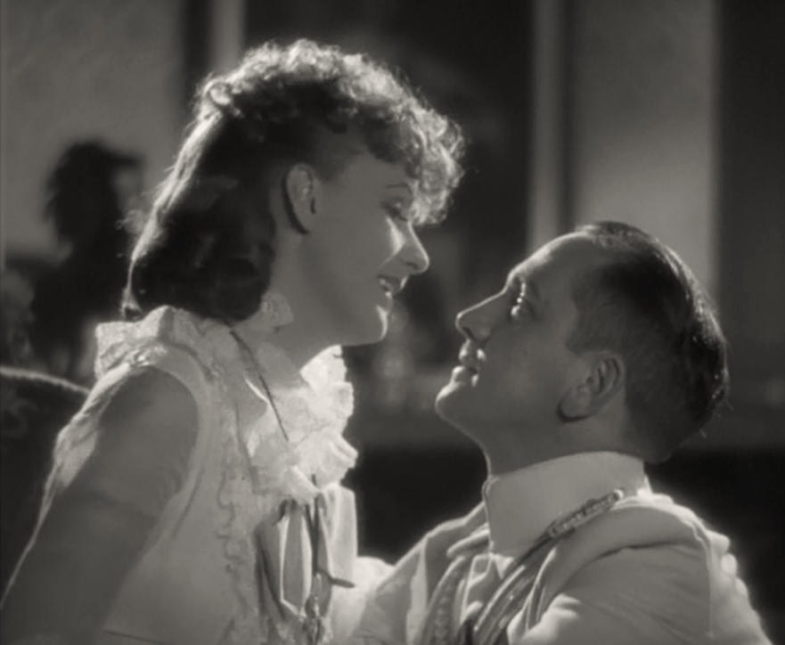 Greta Garbo & Fredric March in Anna Karenina - trailer (cropped screenshot)